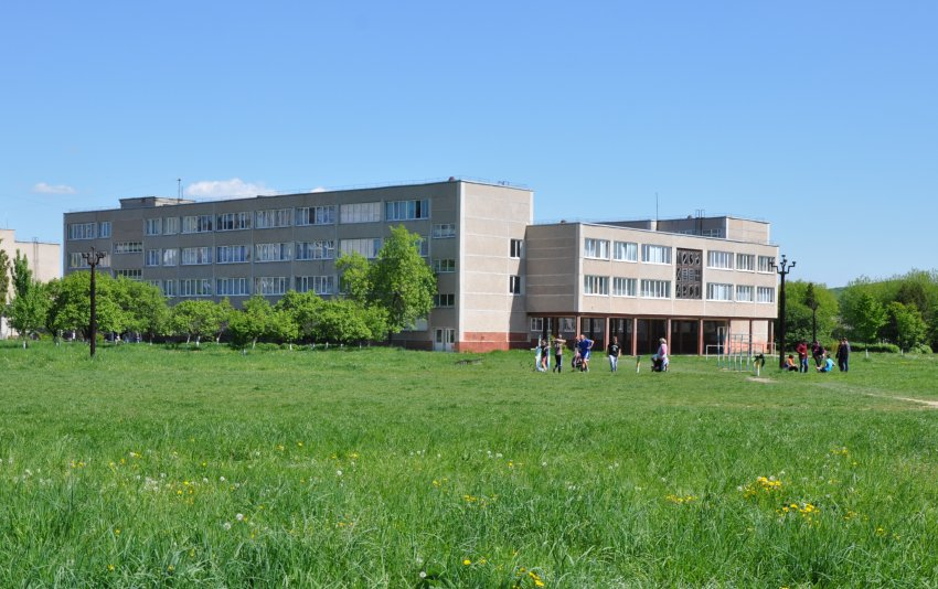 School of general education №10